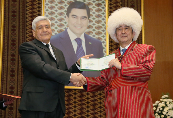 Gurtnyýaz Nurlyýewiç Hanmyradow, Rector of Turkmen State University named after Magtymguly, appointed Shinzō Abe as the Emeritus Professor at Turkmen State University named after Magtymguly in Ashgabat City on October 23, 2015.